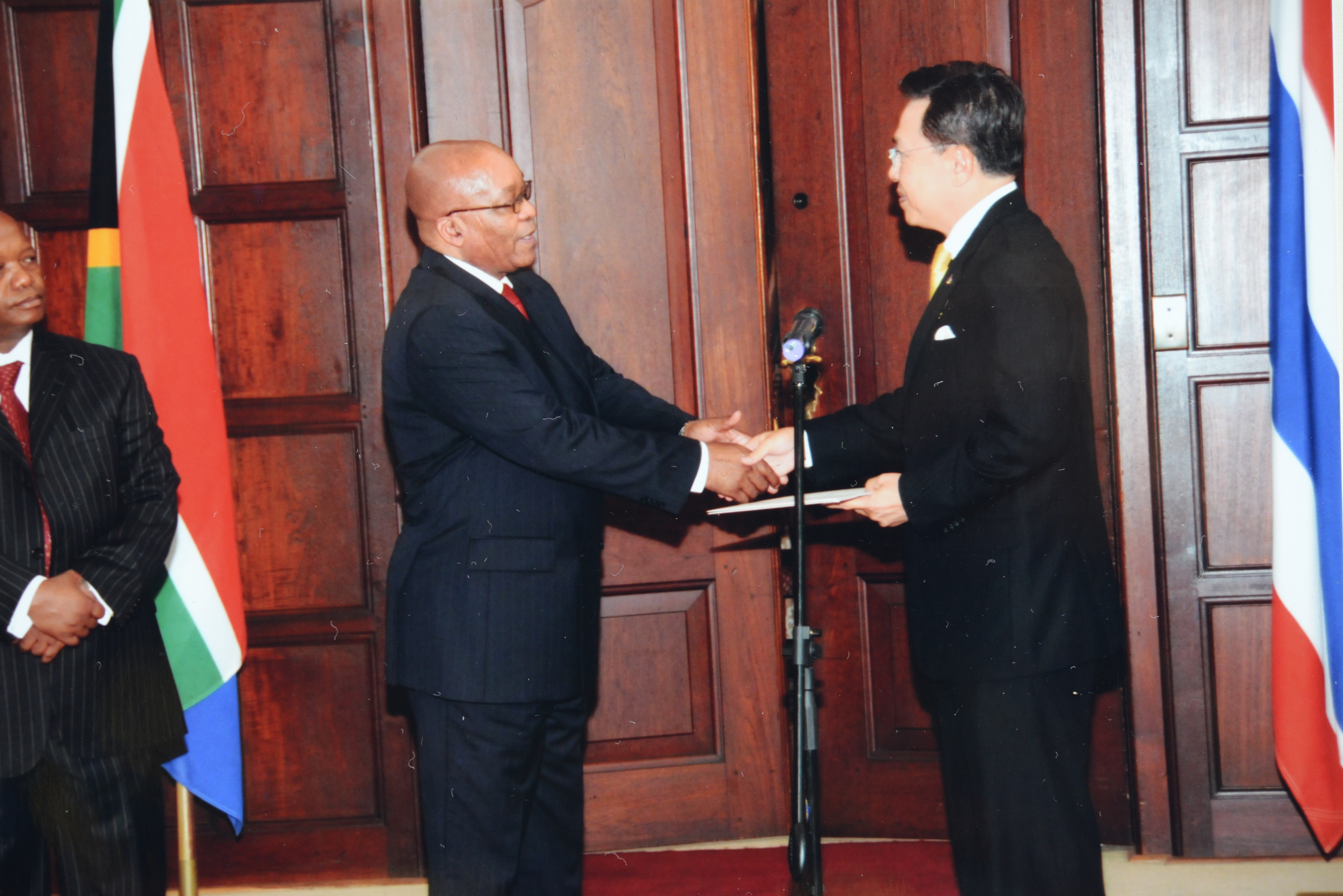 Thai Ambassador to South Africa Tharit Charungvat presenting credentials to South African President Jacob Zuma, 1 October 2010